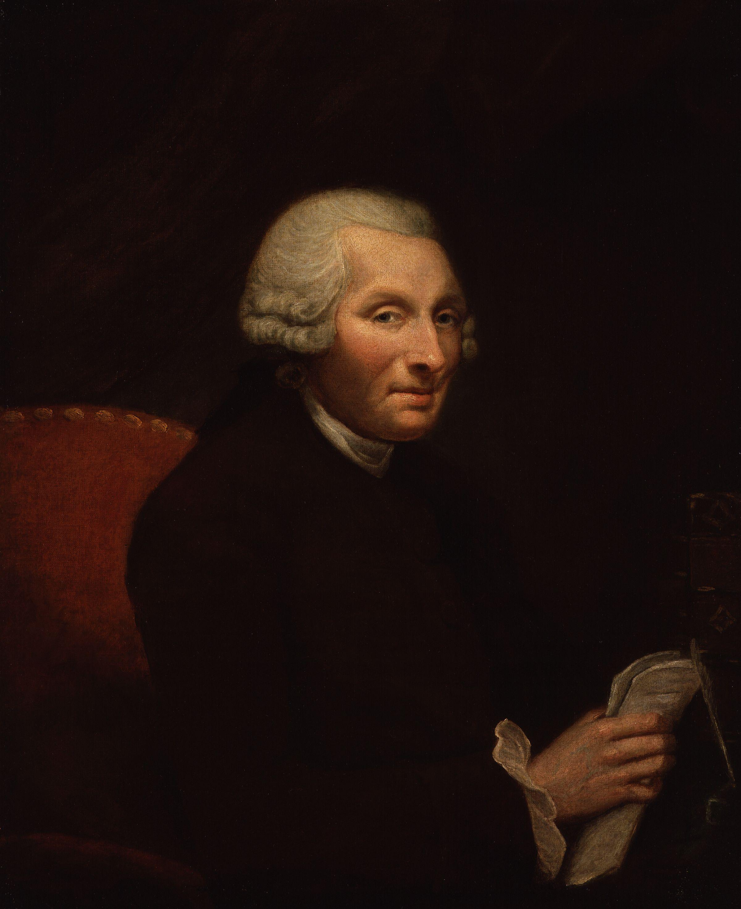 Jonas Hanway, by James Northcote (died 1831). All images in this batch have been confirmed as author died before 1939 according to the official death date listed by the NPG.